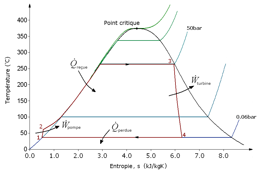 This picture is a french translation of Andrew.Ainsworth's diagram from en-wiki. It show the dependence of temperature on entropy for the Rankine cycle with water. More information from the author on